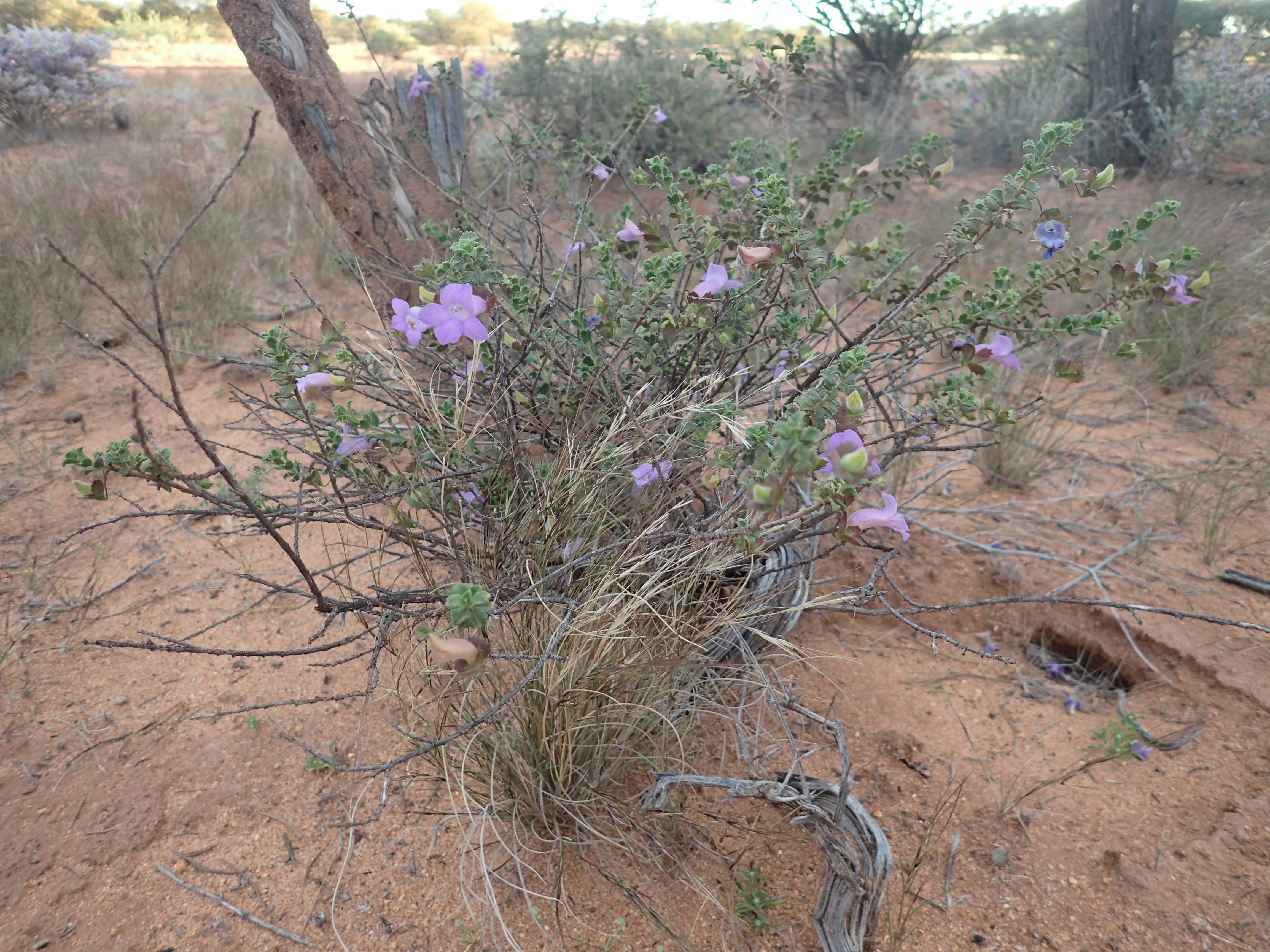 Eremophila flabellata growing 15km east of Meekatharra